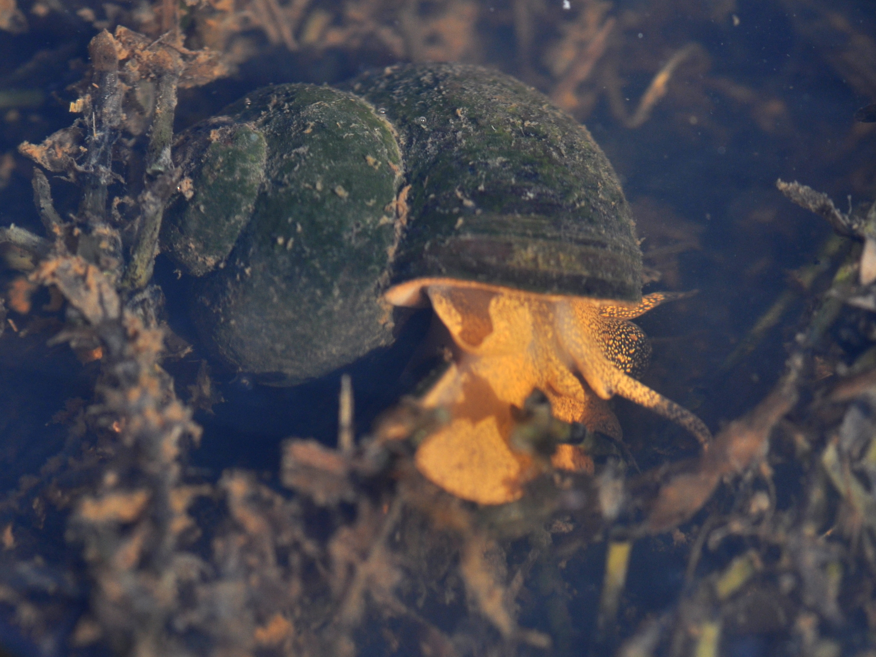 Lister's river snail in Kirchwerder, Hamburg.